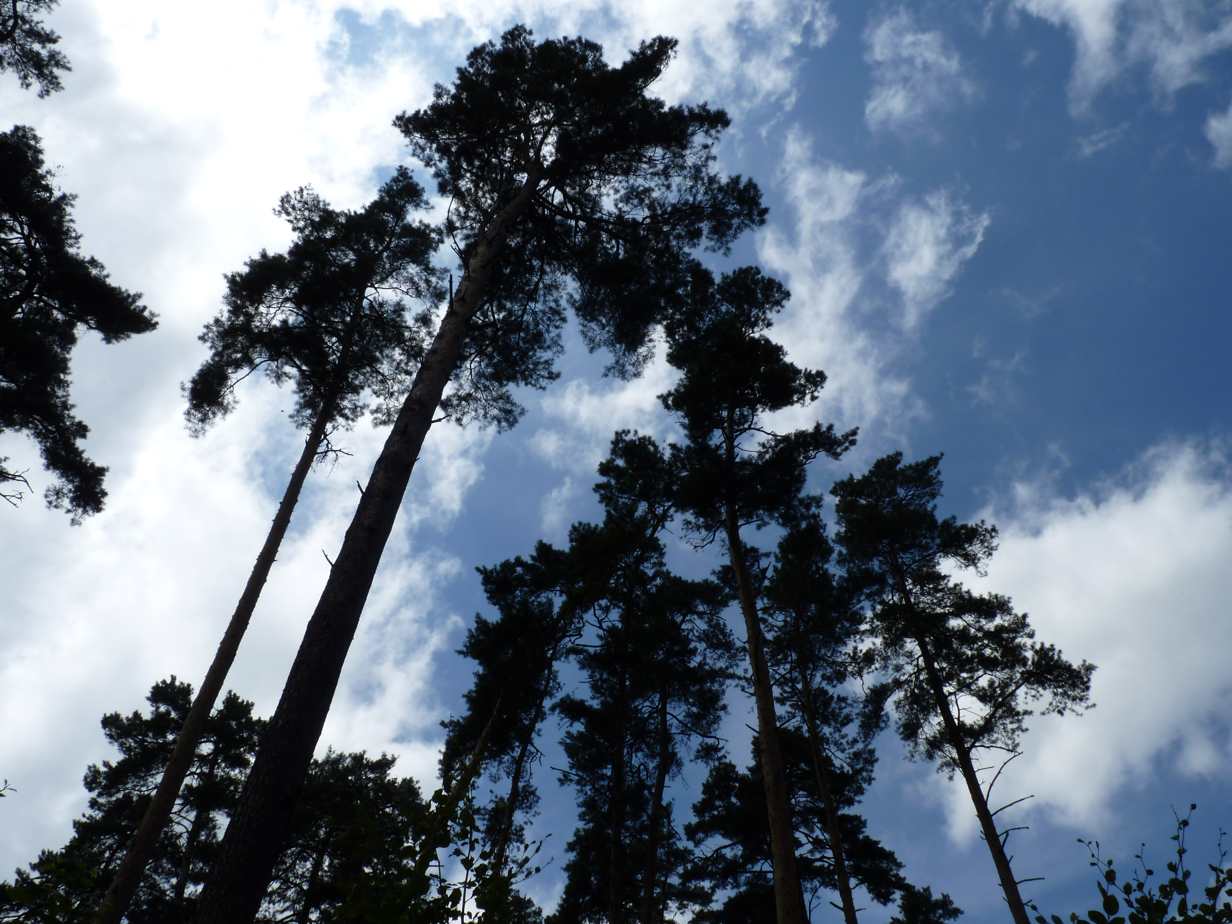 Natural monument Hranečník. Opava District, Moravian-Silesian Region, Czech Republic